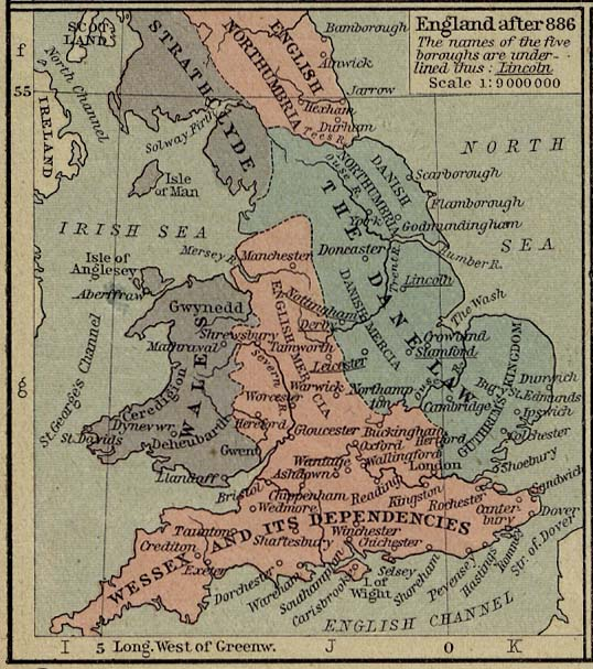 Map of England after 886 A.D.